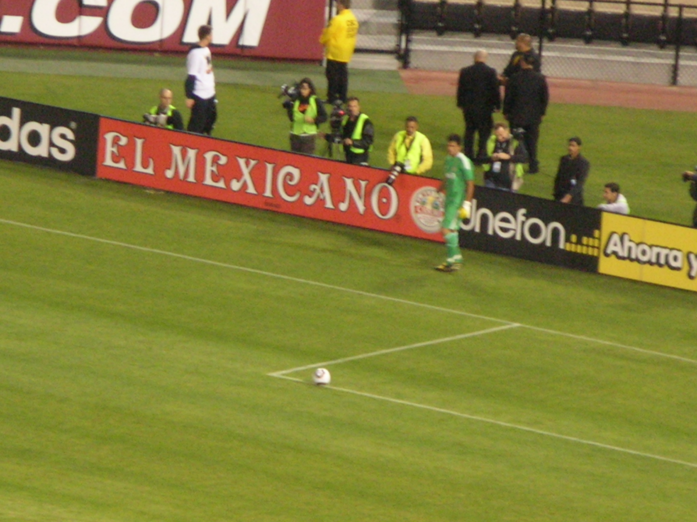 Real Madrid goalkeeper Antonio Adán at a friendly match against Club América at Candlestick Park in San Francisco. Real Madrid won 3-2.